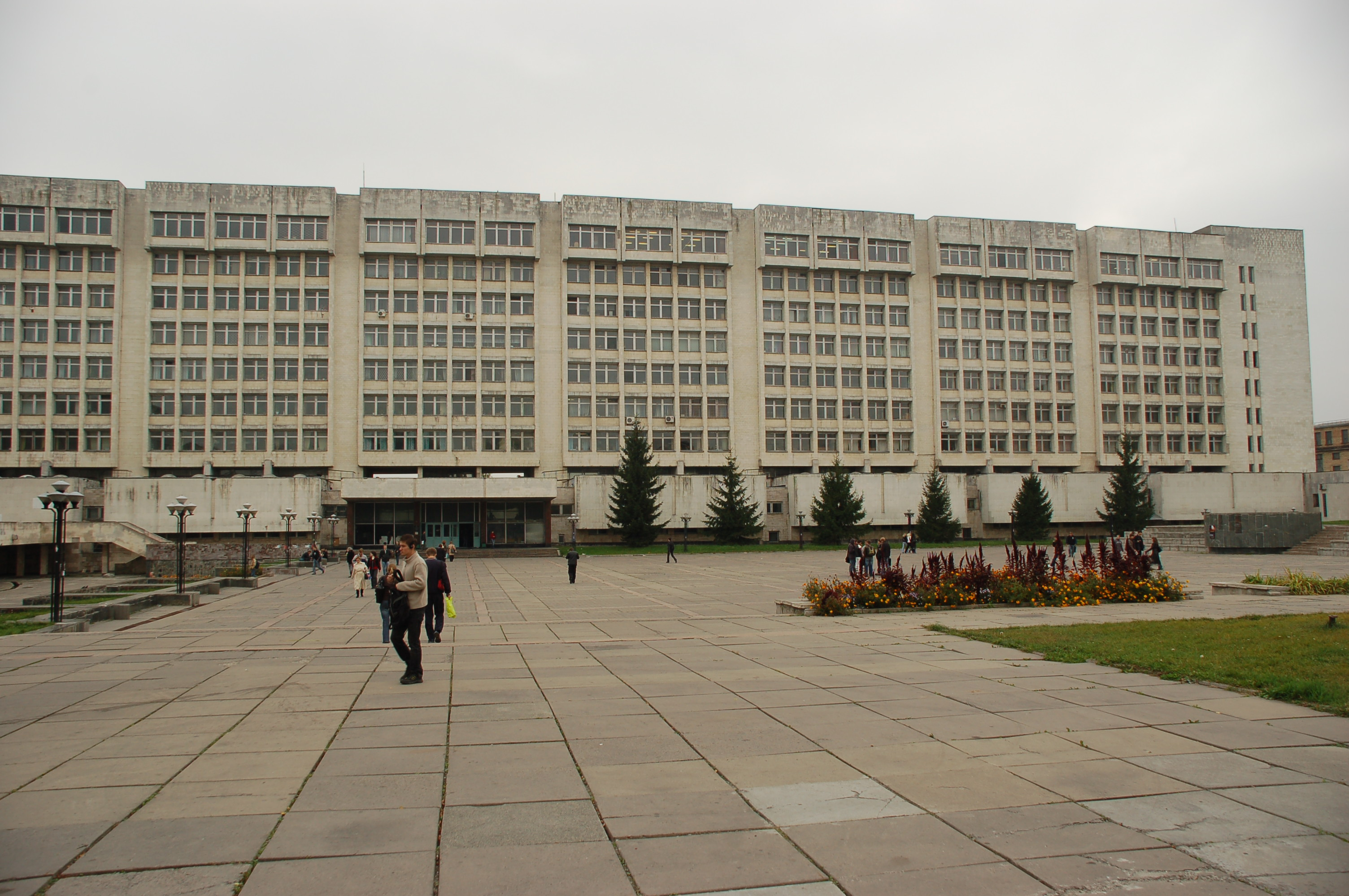 Korpus number 7 of NTUU-KPI, dedicated to Chemistry. Main entrance.